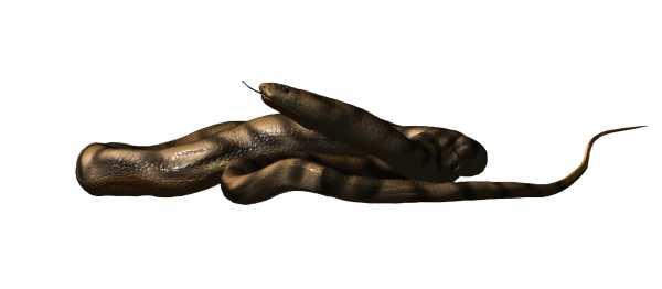 Dinylisia